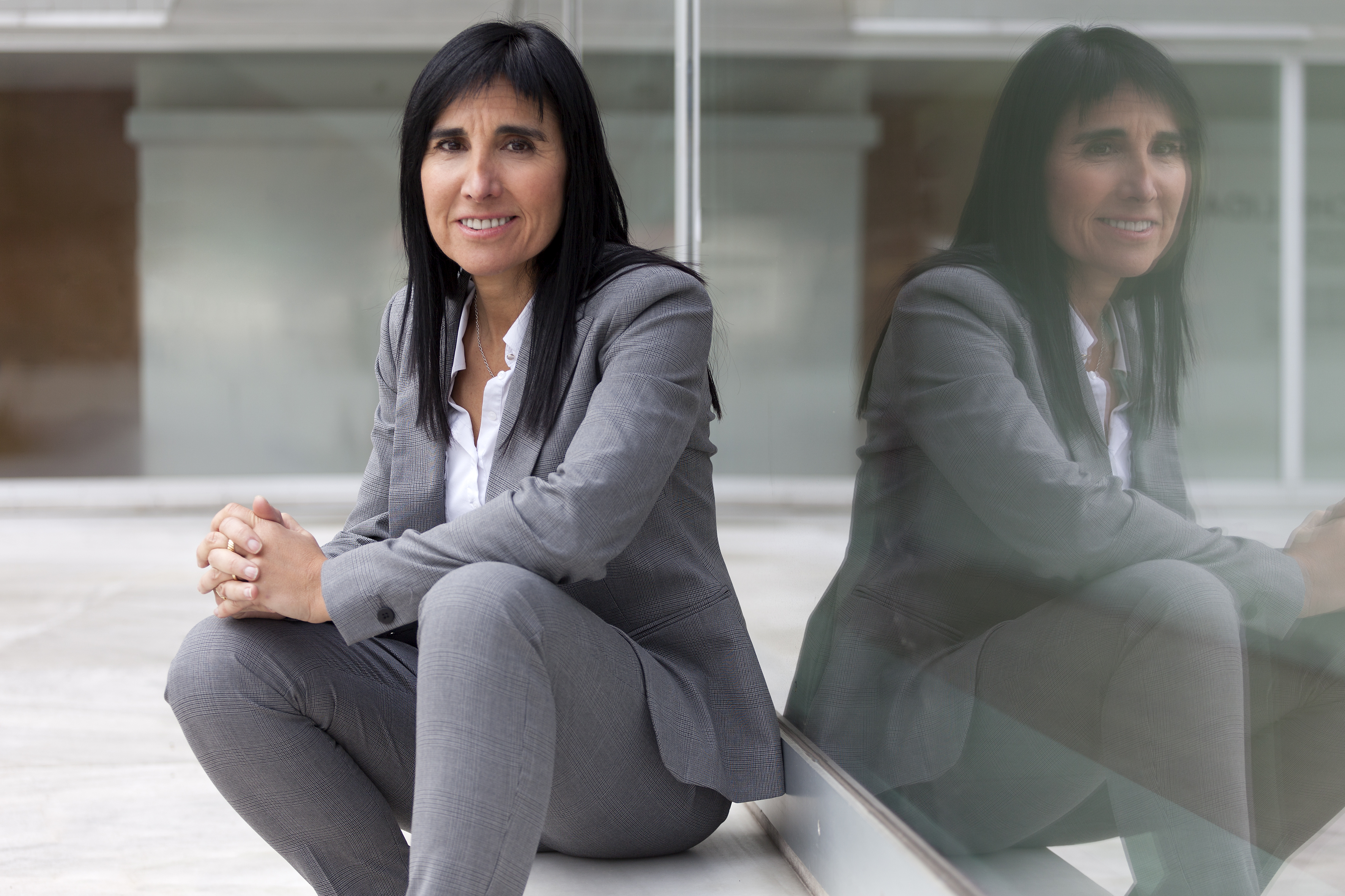 Nekane Balluerka the rctor of the University of the Basque Country in 2017